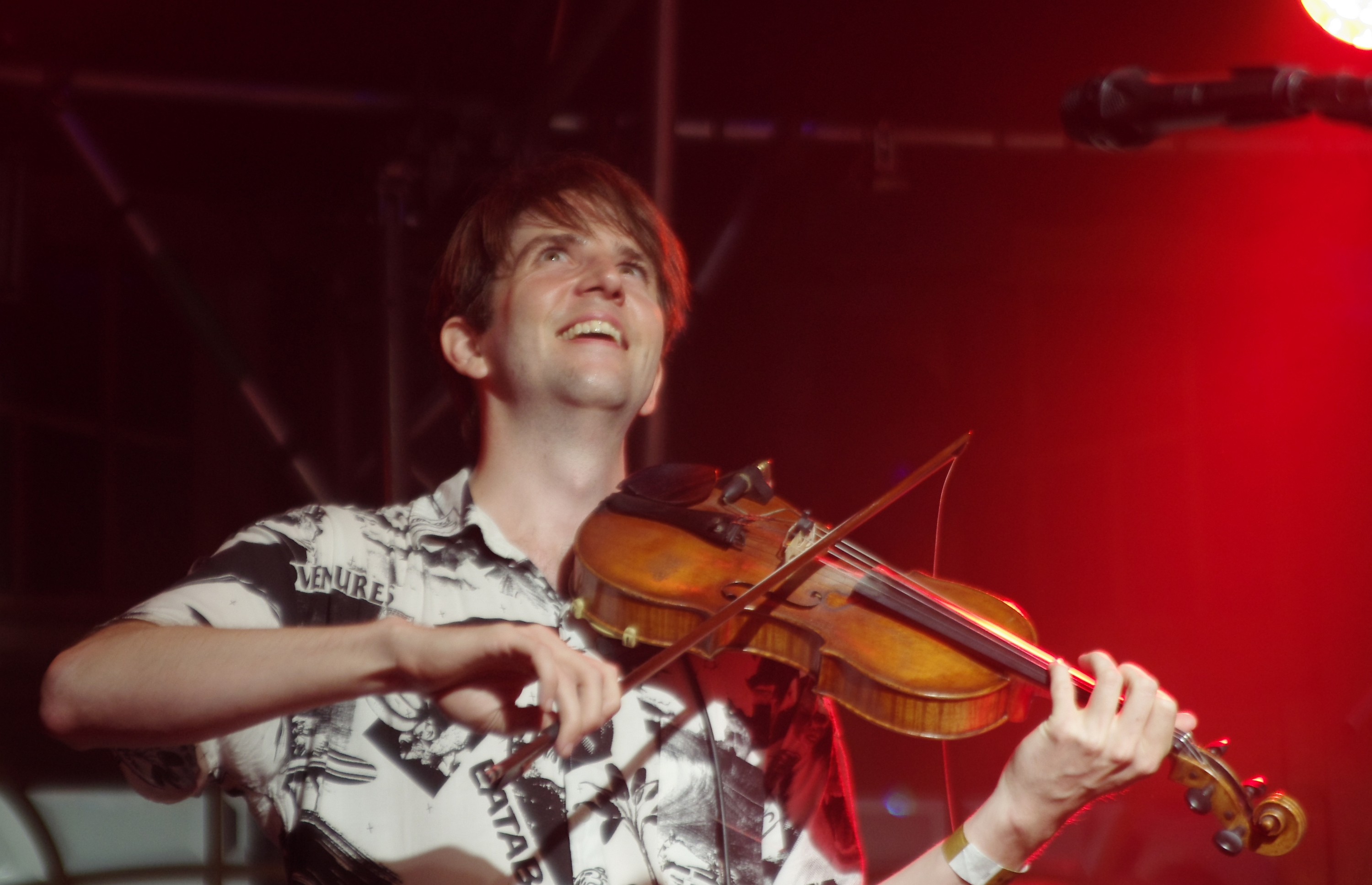 Owen Pallett at Haldern Pop 2013